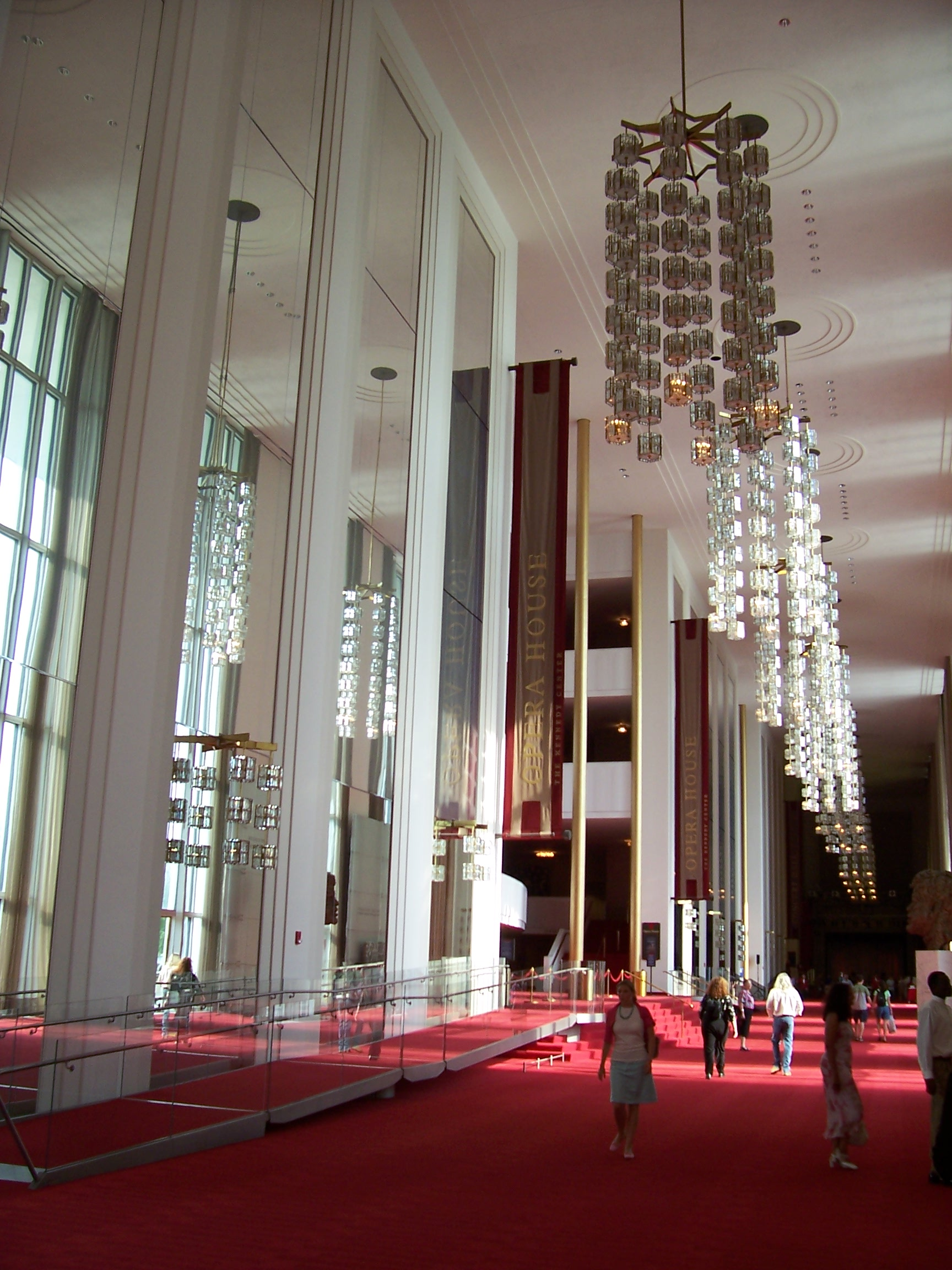 Interior of the Kennedy Center for the Performing Arts in Washington D.C. (USA)